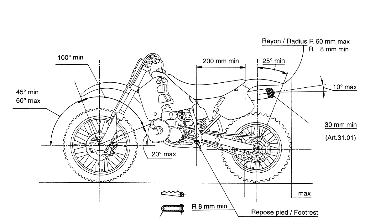 Motocross motorcycle Outline